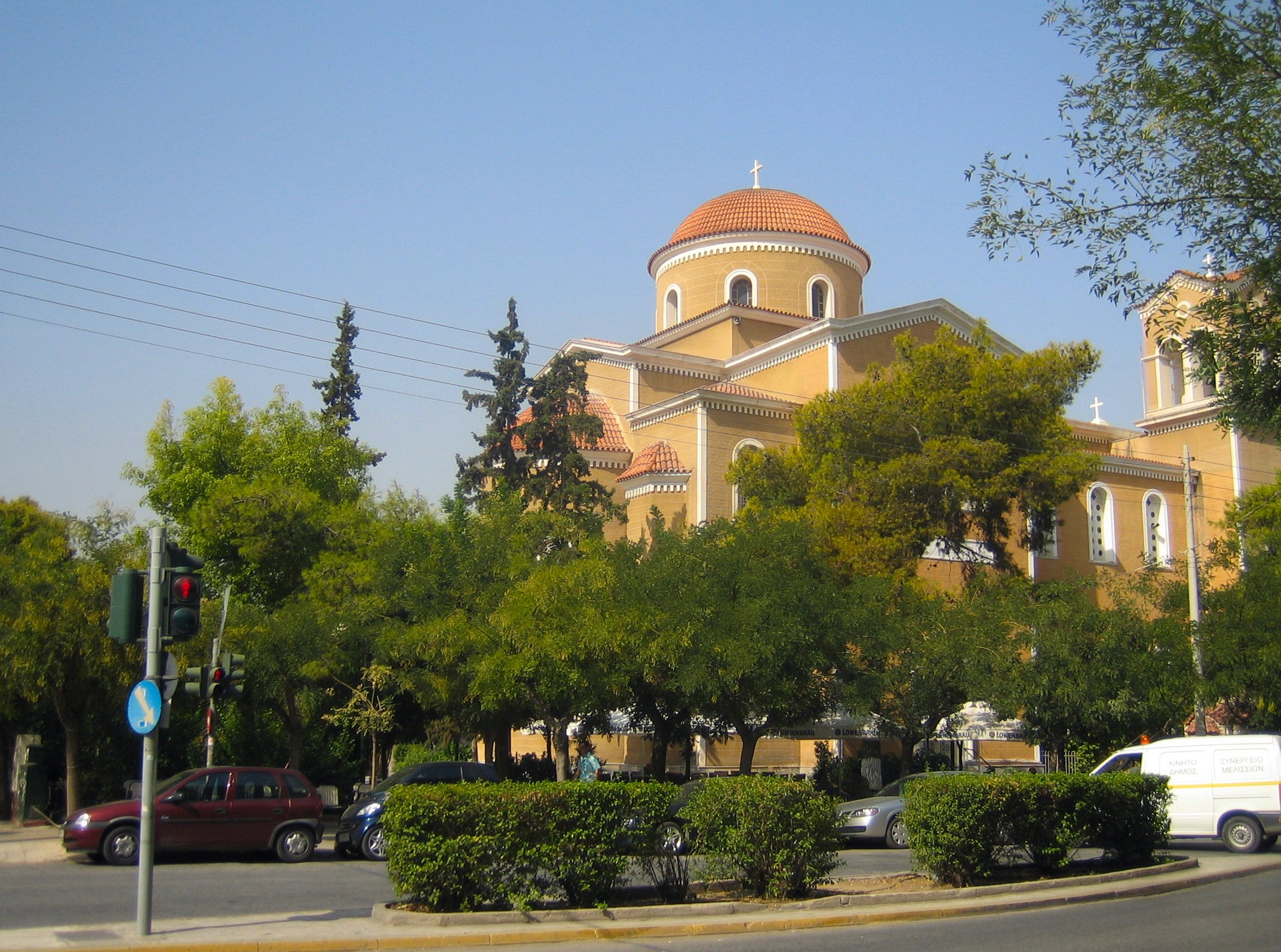 Church in Akademia Platonos quarter, Athens.